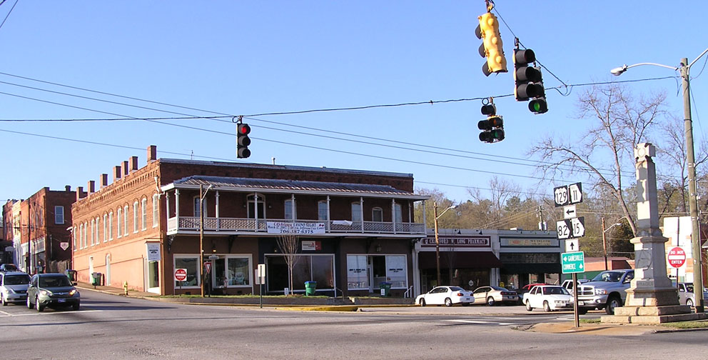 Photograph number two of a four photo sequence showing the downtown square of Jefferson. Photo taken by Richard Chambers, afternoon of March 16, 2007. Image resized by 50% and slightly cropped.